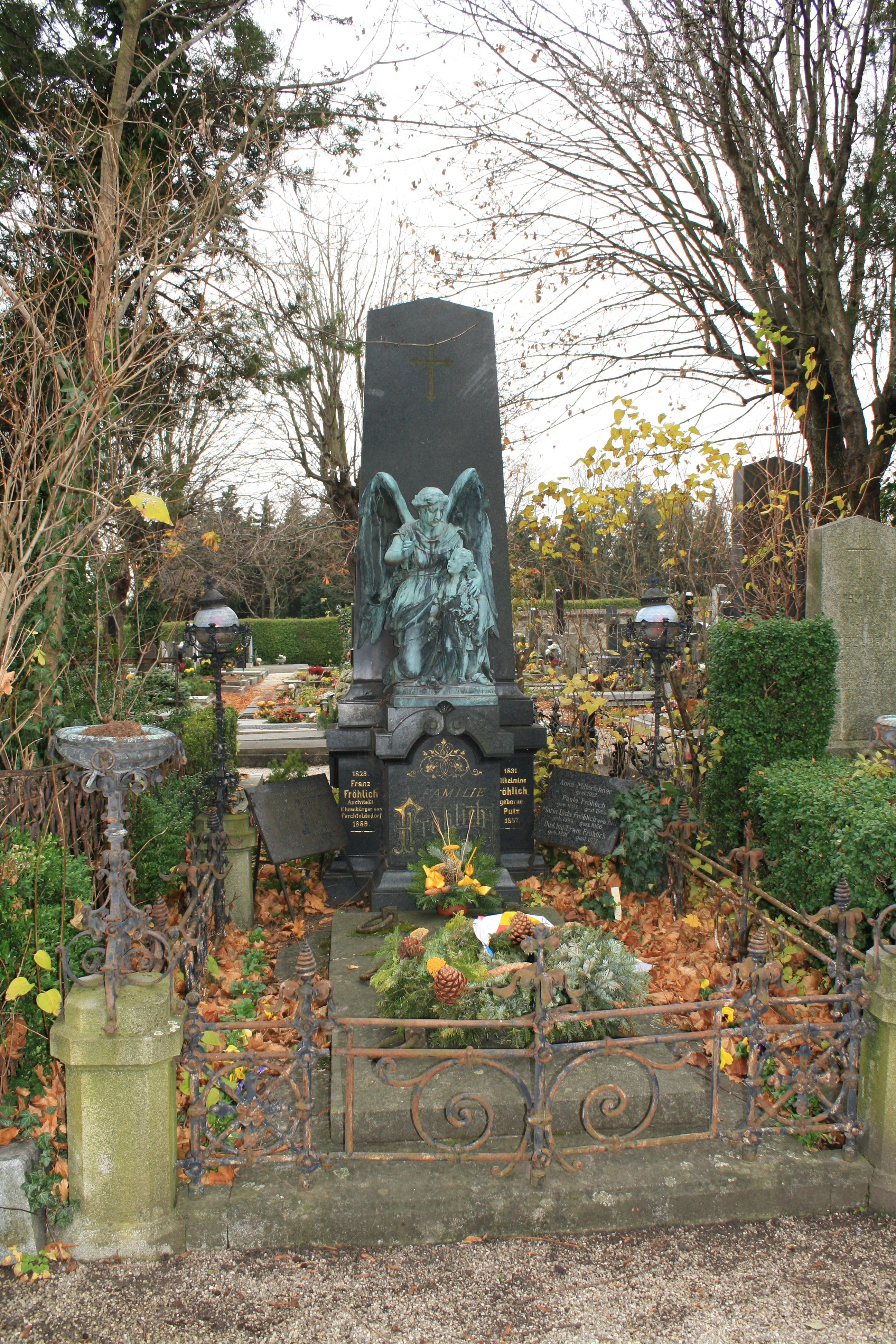 Cemetery in Perchtoldsdorf in Lower Austria